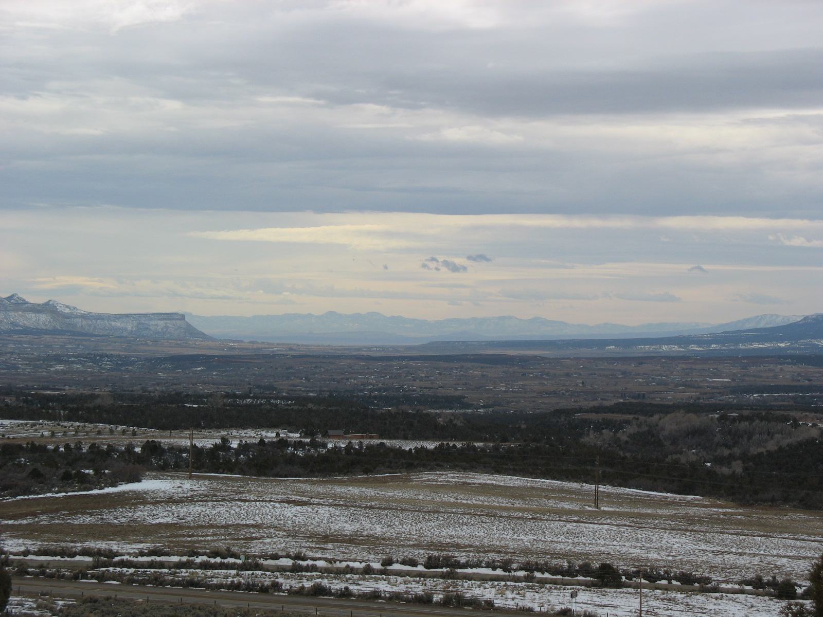 View of the Chuska Mountains in New Mexico